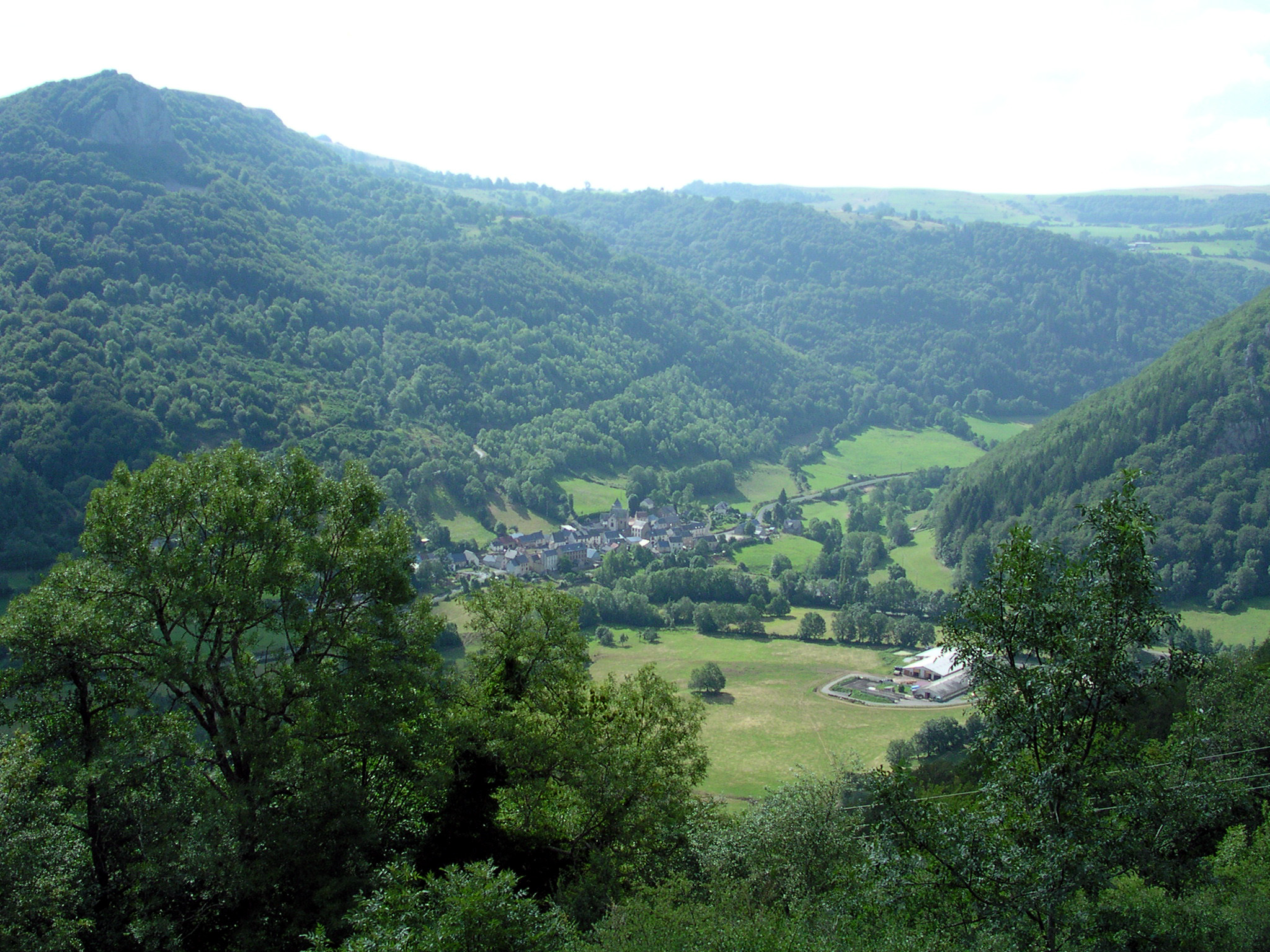 Village of Valbeleix (department du Puy-de-Dôme, Auvergne, France) Auteur : Romary 07/07th août/August 2006